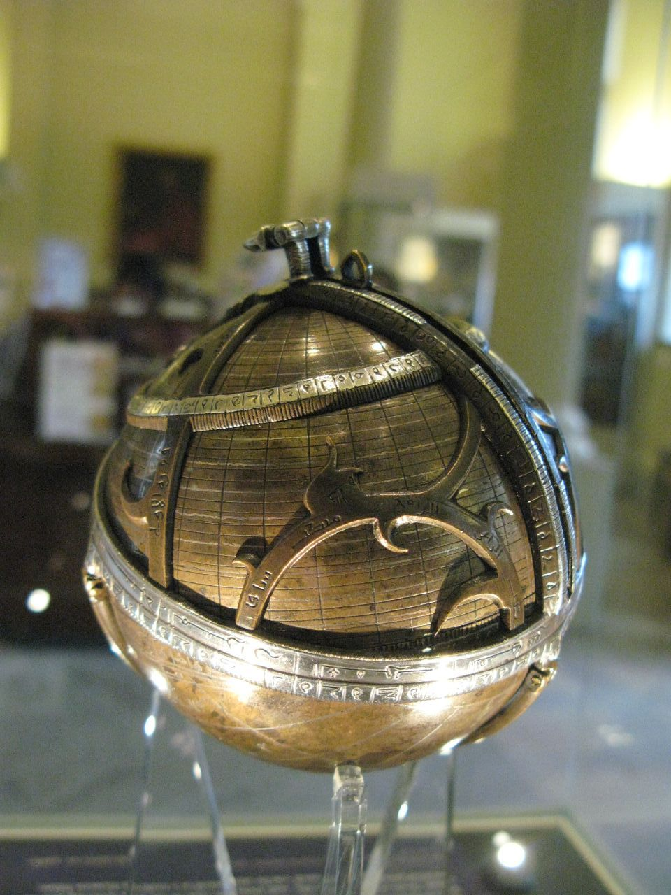 The spherical astrolabe from medieval Islamic astronomy, c. 1480, in the Museum of the History of Science, Oxford[1]